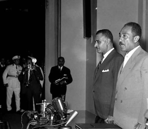 Nasser and Sadat in 1960